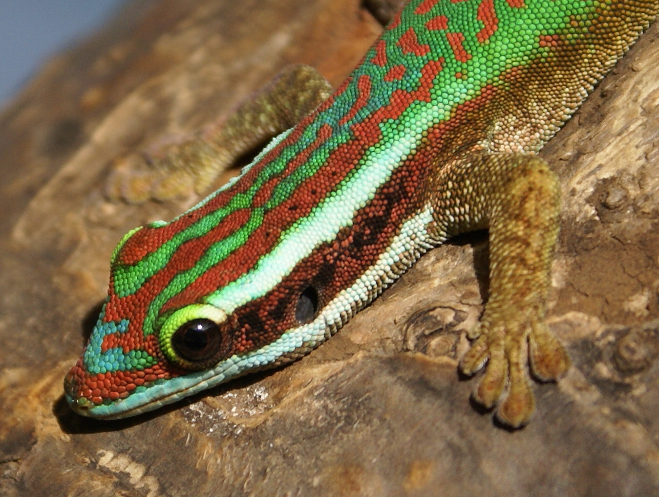 Phelsuma inexpectata in wild on Pandanus utilis